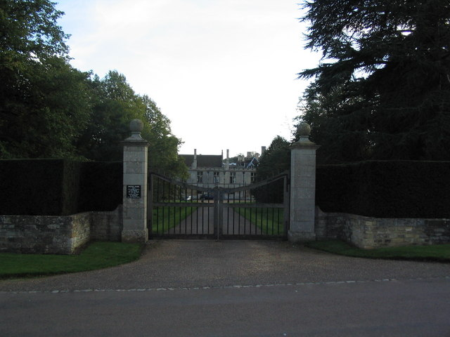 Entrance to Deene Park, Deene, Northamptonshire A Georgian mansion set in beautiful grounds. Open at times during the summer.